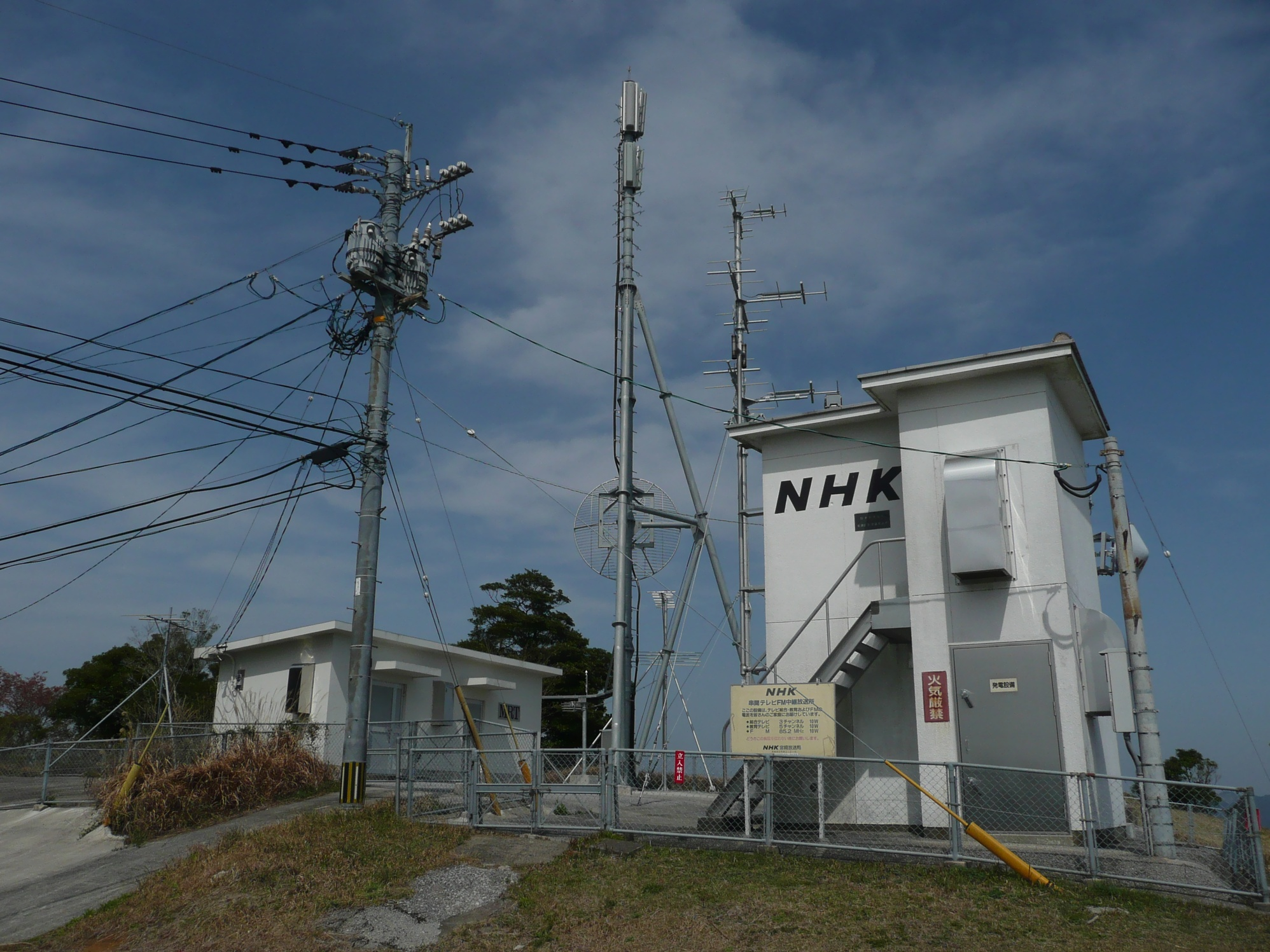 Kushima TV Repeater (NHK Miyazaki , MRT - Kushima City, Miyazaki, Japan)